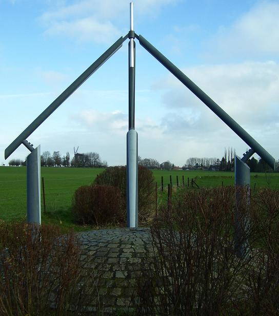 Monument at the geographical center of Belgium in Nil-Saint-Vincent (Walhain), project of the architect Bernard Defrenne